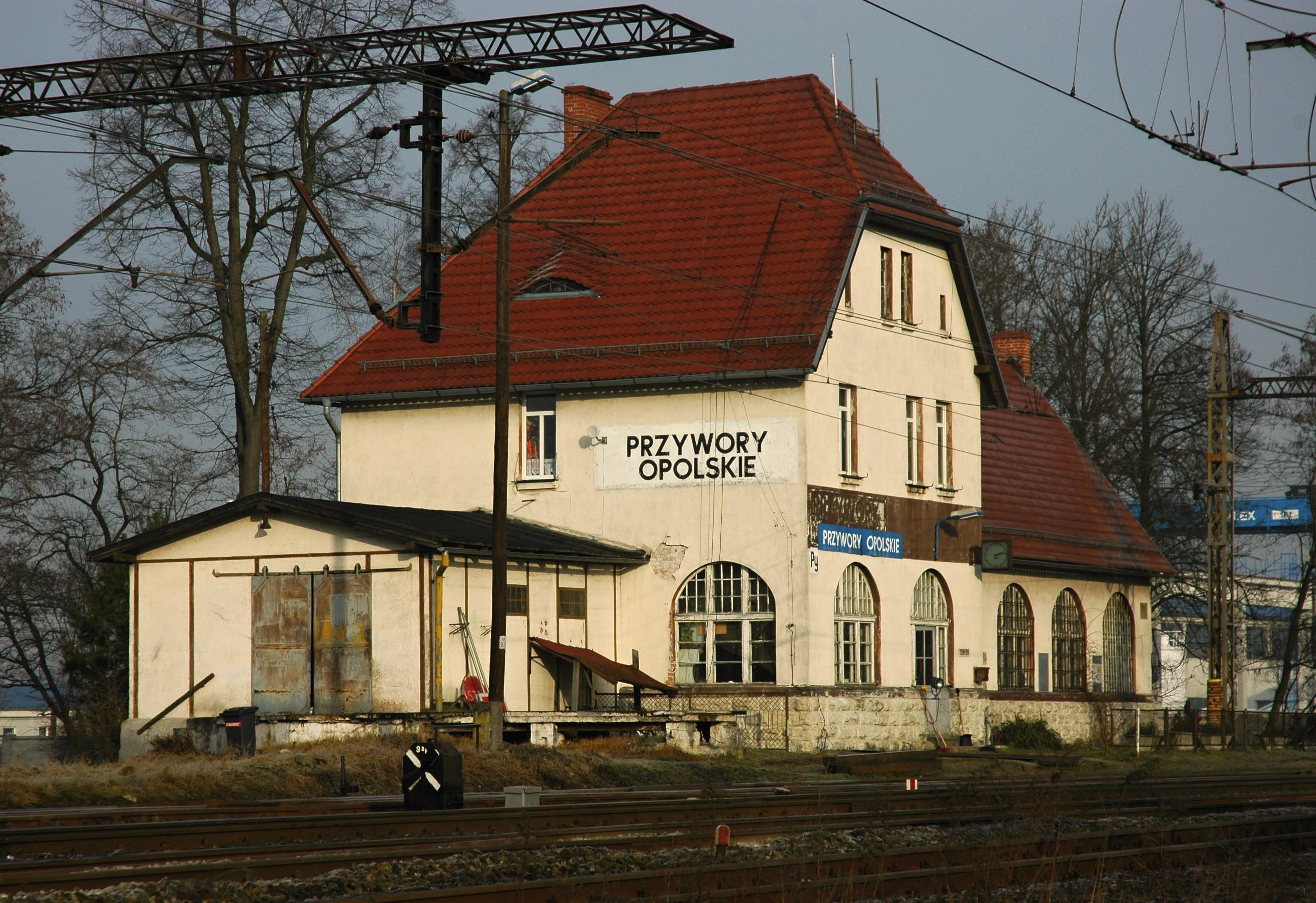 Przywory Opolskie railway station, Poland